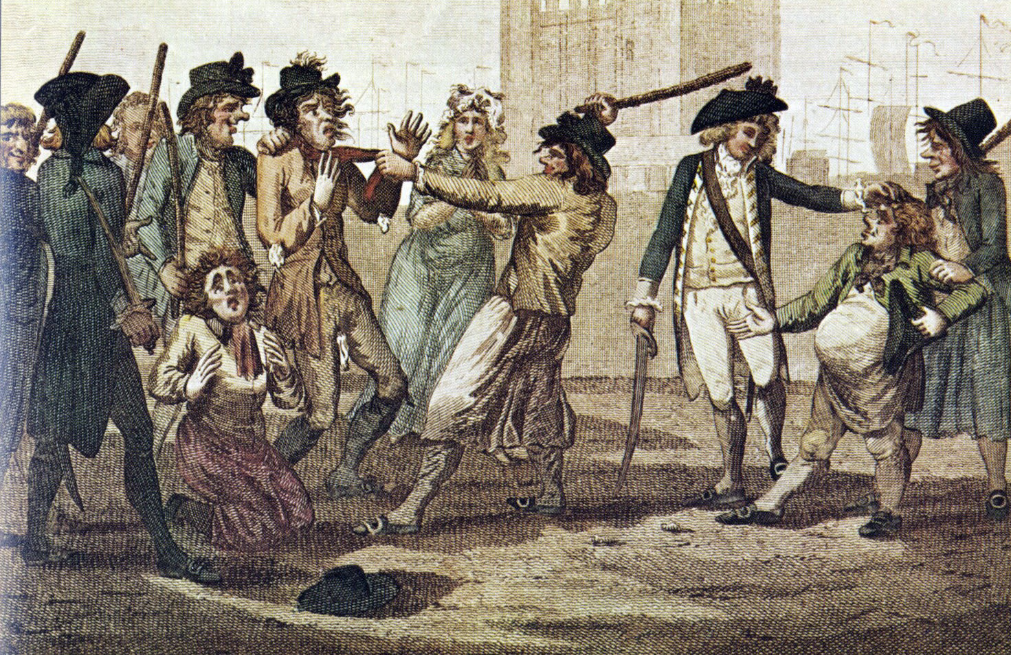 1780 caricature of a press gang